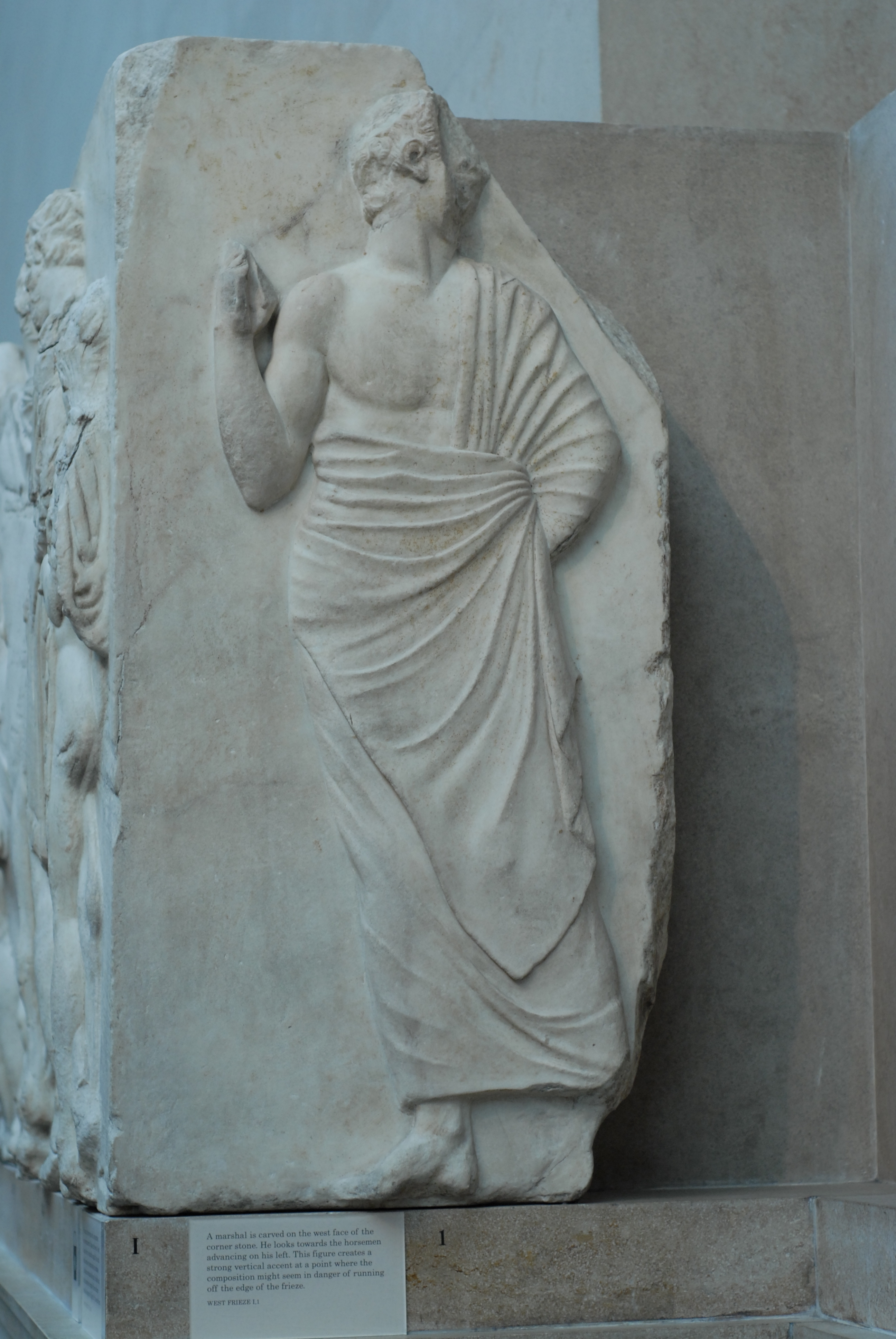 Marshal. Block I from the west frieze of the Parthenon, ca. 447–433 BC.